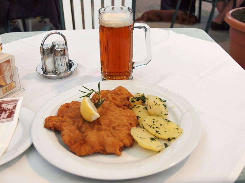 A Wiener Schitzel with potatoes, served at Gasthaus Joainig, Pörtschah am Wörthersee, Carinthia, Austria.